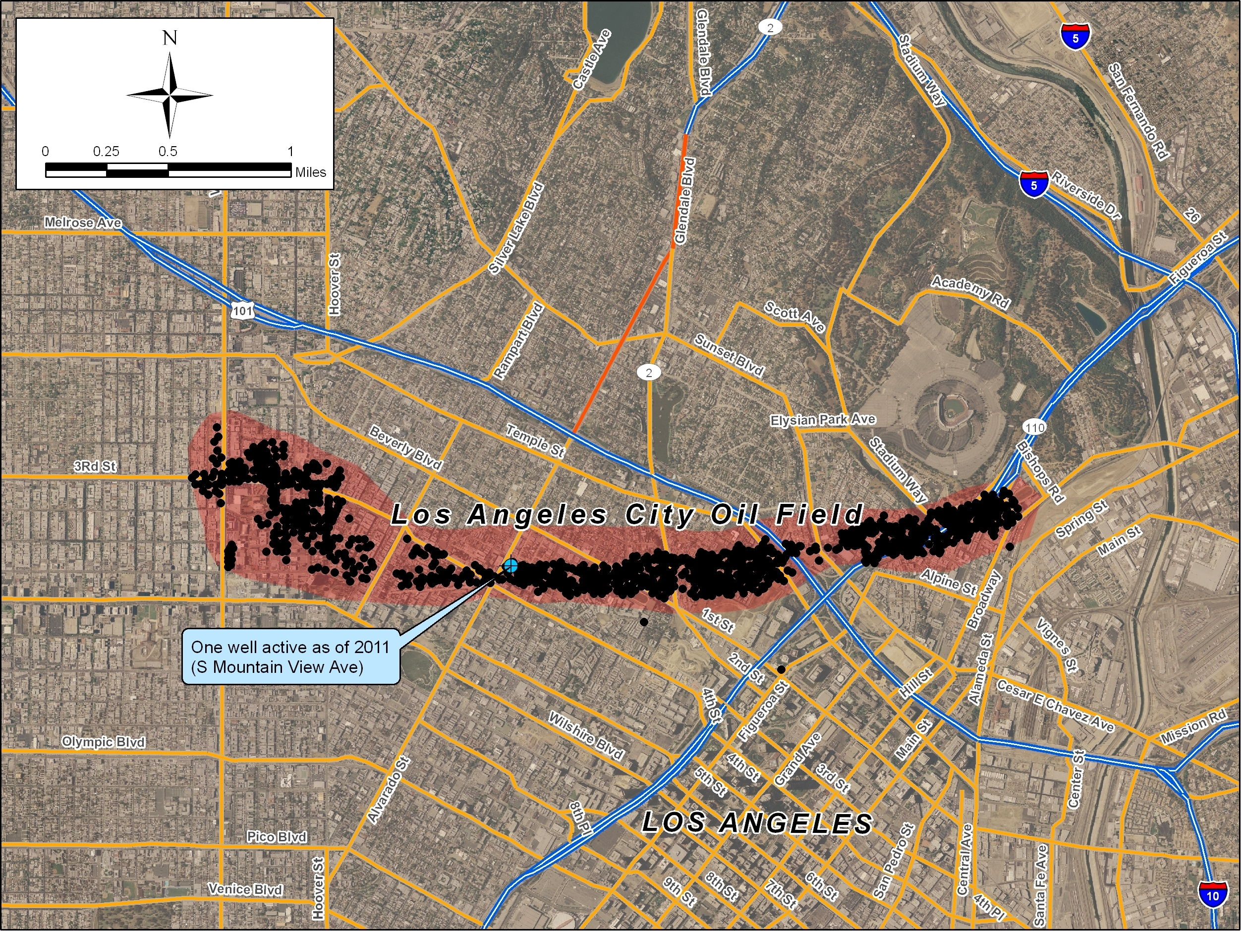 Detail of the Los Angeles City Oil Field. Map by self in ArcGIS 10. All data shown on this map is in the public domain (US Dept of Agriculture NAIP imagery; US Census TIGER streets; etc.) cc-sa 3.0.